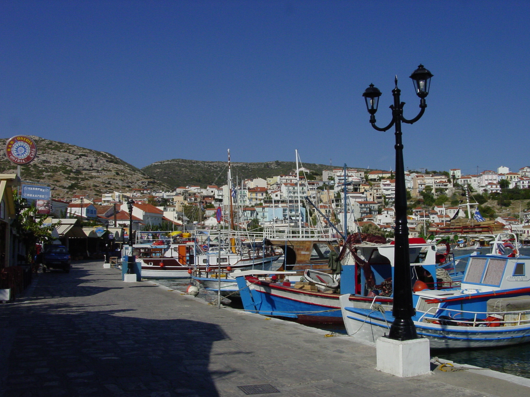 Pythagorio City, Samos Island